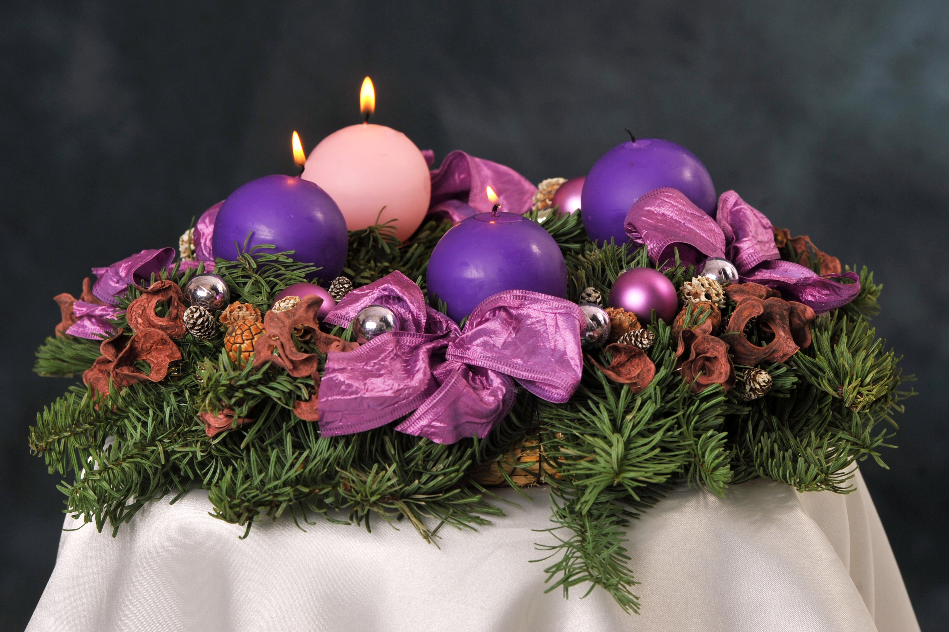 Advent wreath with violet and rose candles - 3 lights